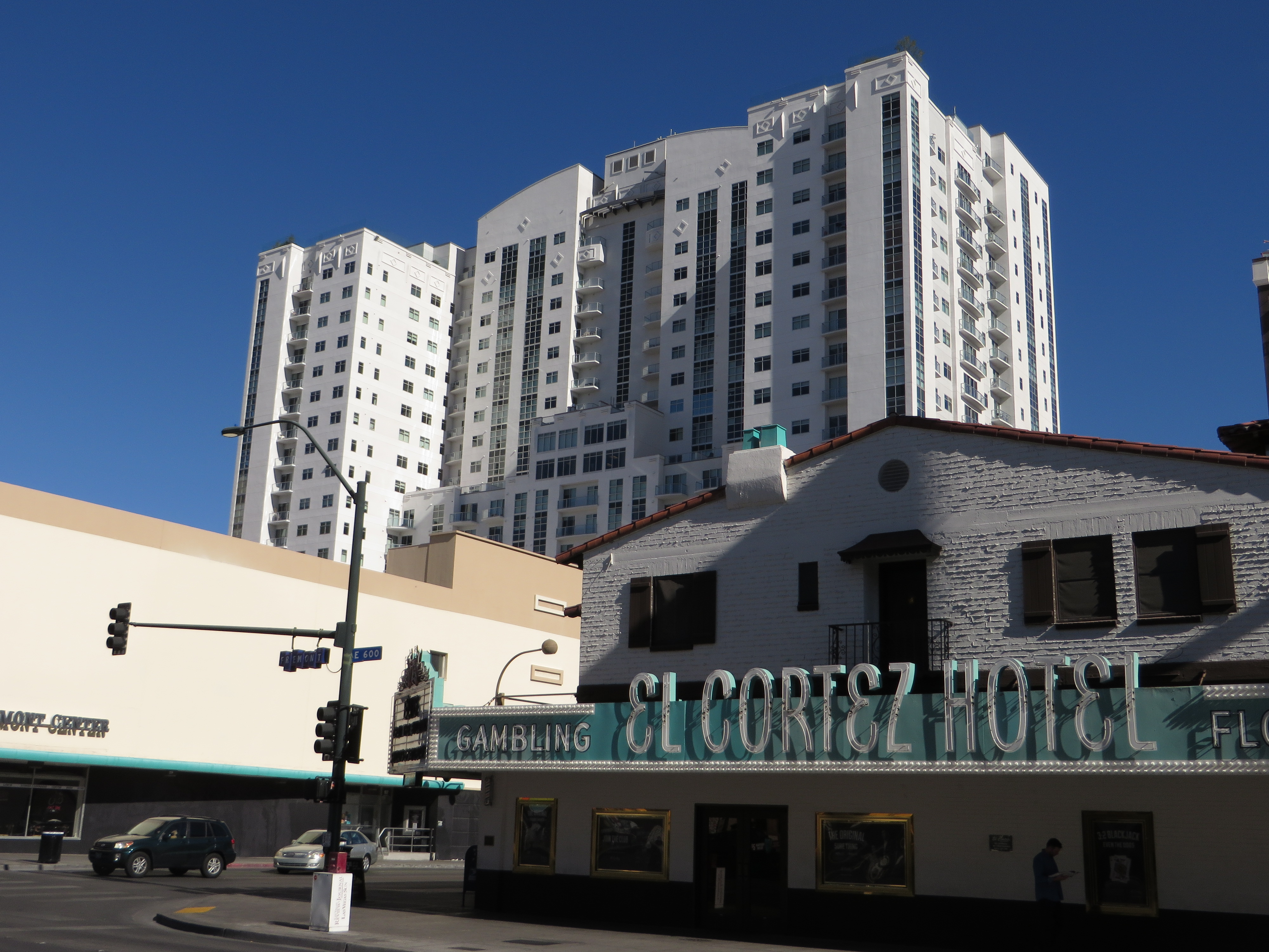 Looking northwest at the Ogden condominium tower in downtown Las Vegas, with a portion of the El Cortez hotel in the foreground.